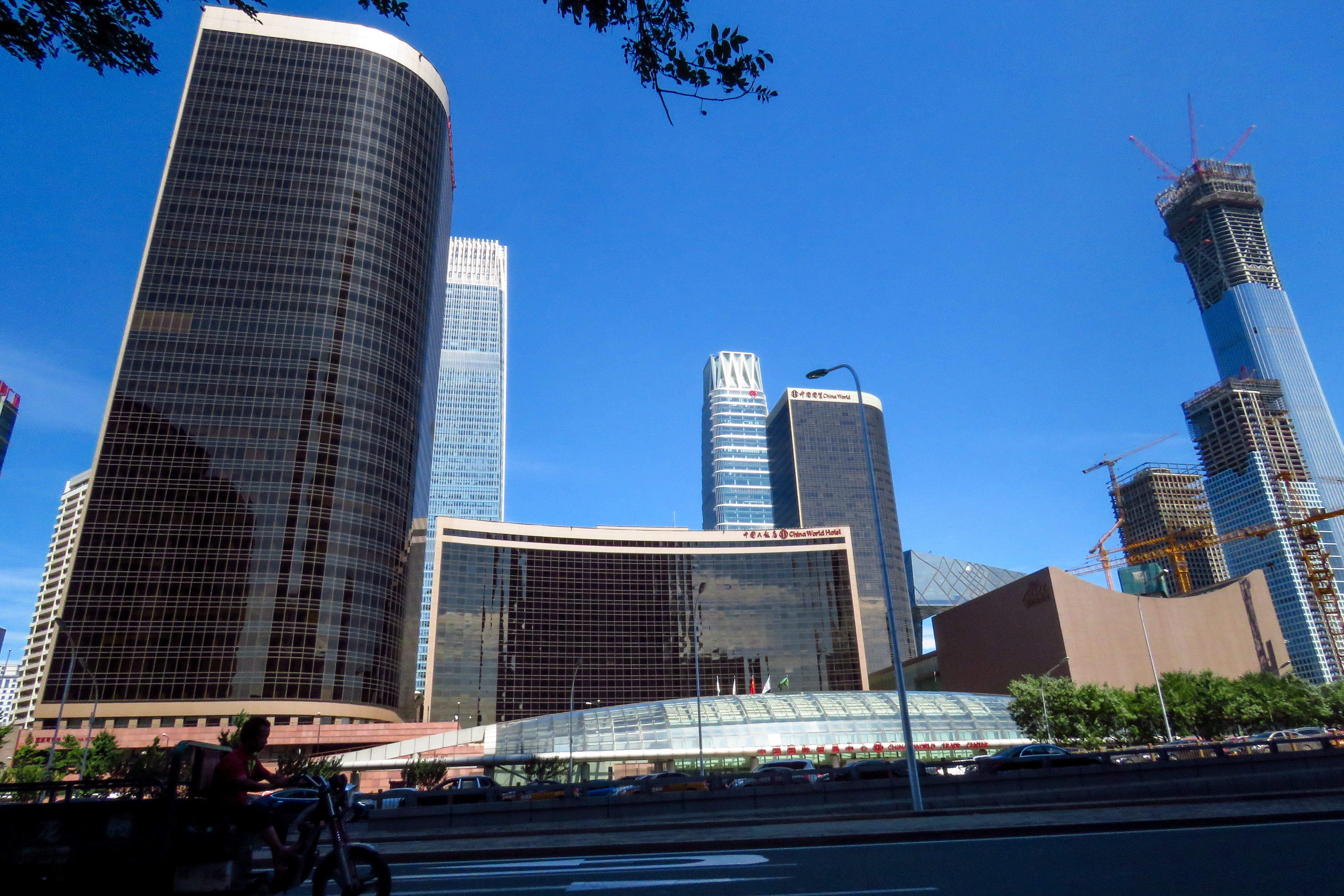 Still something like a ground-to-air view. These are the symbols of "China Beijing Dabeiyao" (a nickname of this Central Business District).